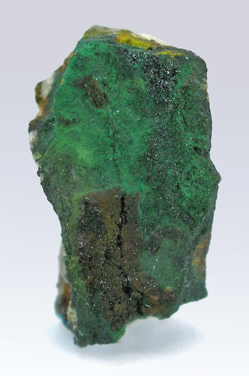 Aerugite Locality: Johanngeorgenstadt, Johanngeorgenstadt District, Erzgebirge, Saxony, Germany (Locality at ) Size: 1.7 x 0.9 x 0.8 cm The aerugite is both the lighter green and darker green material that's visible on the top face (confirmed by Dr. Mark Feinglos). The greenish yellow mineral is xanthiosite. I am told (though there is no way to prove it now), as it was in the American Museum by the late 1800s with catalogue number 5305 there. From the rarities suite of Lawrence Conklin, who exchanged it from the American Museum of Natural History.